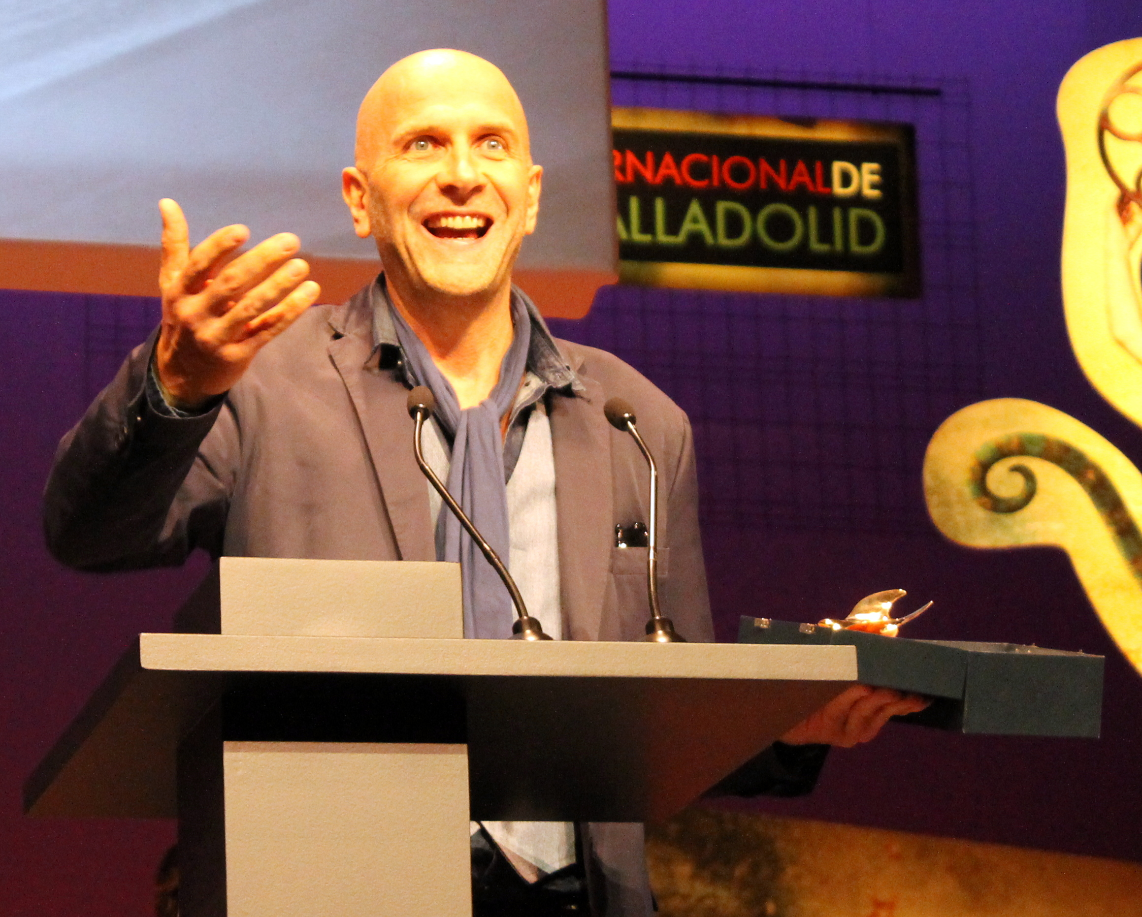 Nic Balthazar, Belgian film director.